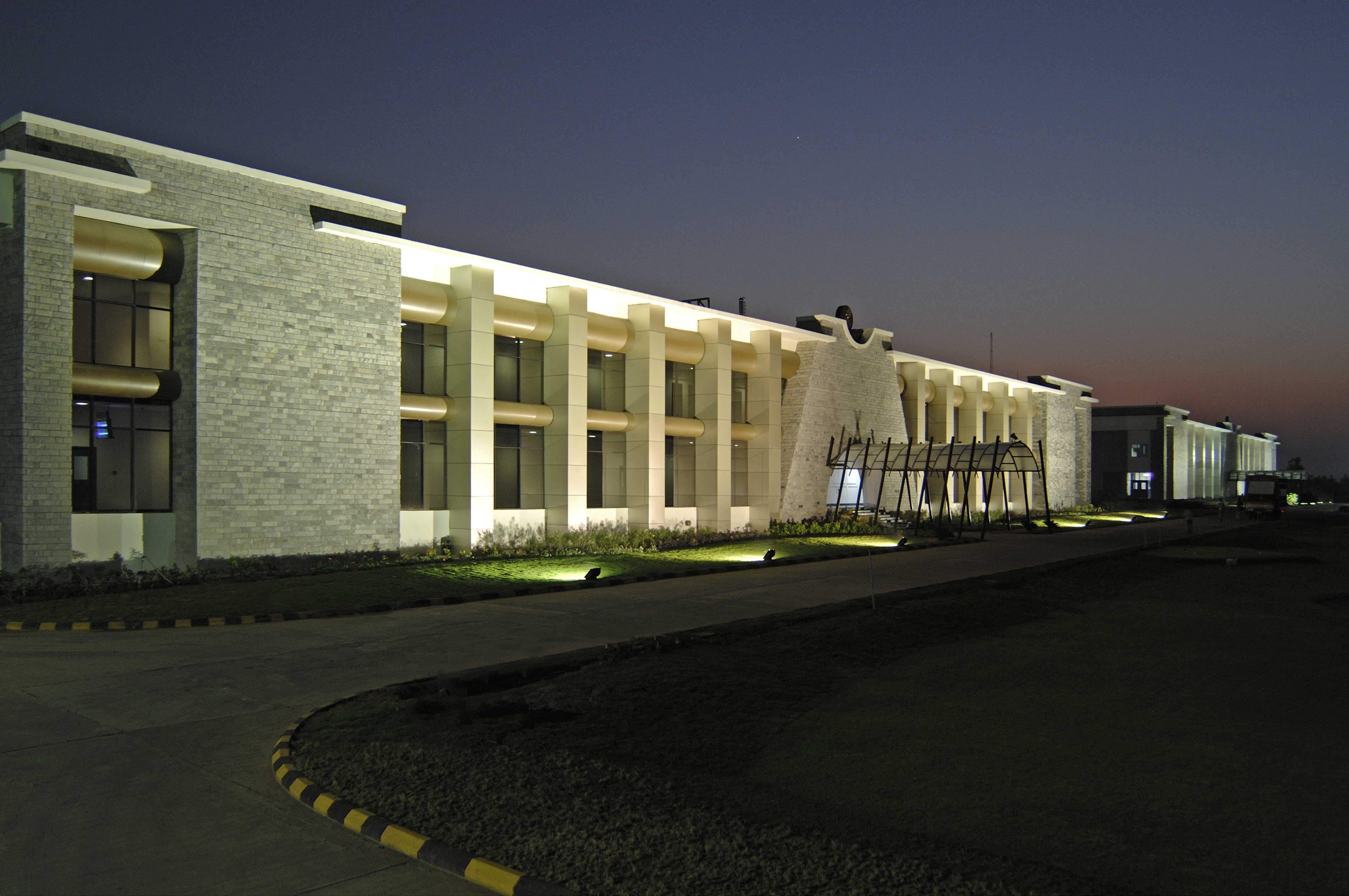 Granules plant Gagilapur second picture